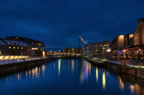 Solsiden is located in the downtown of Trondheim